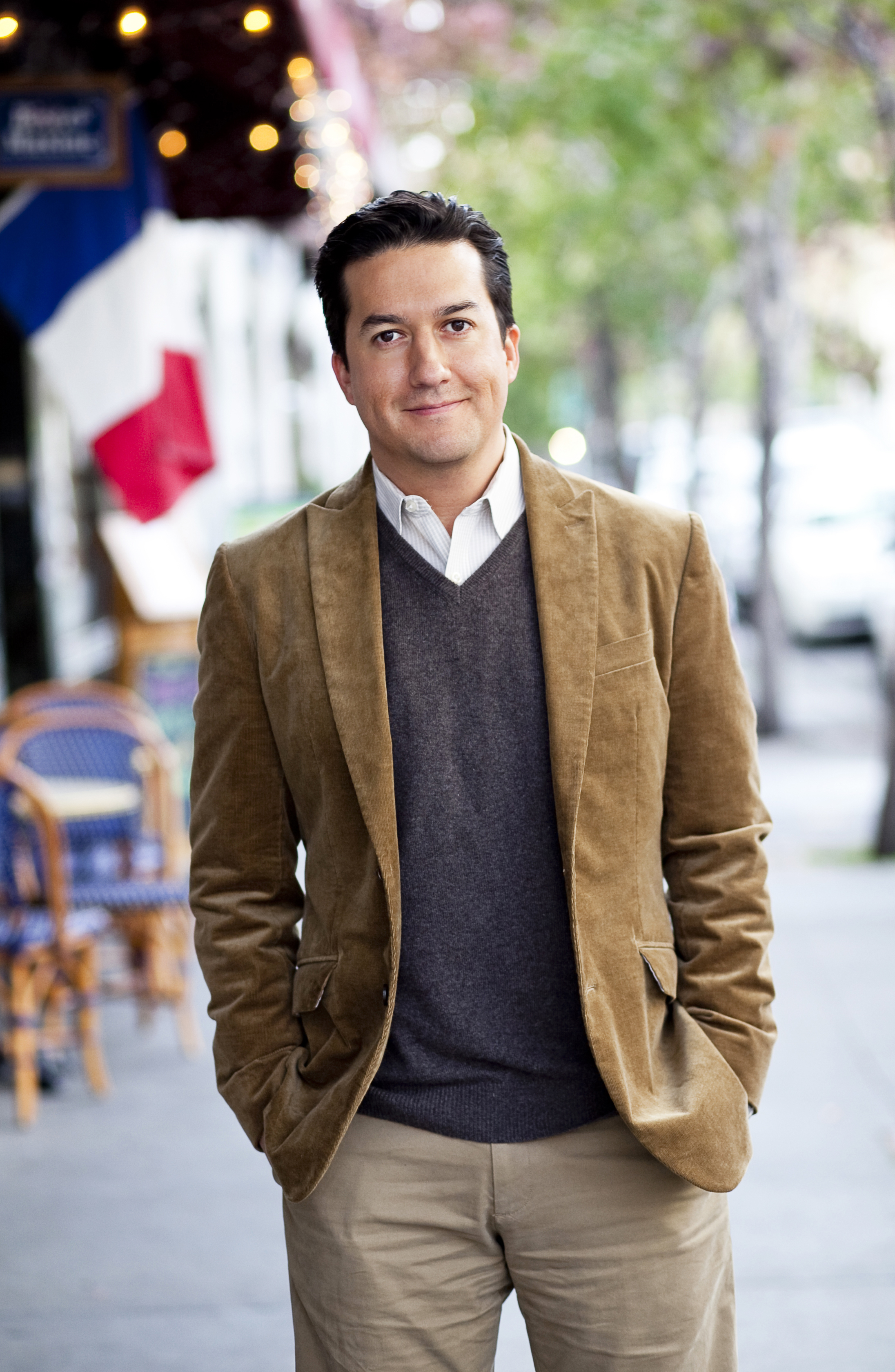 Sid Espinosa on University Avenue in Palo Alto.